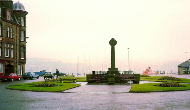 Campbeltown Cross Celtic Cross in roundabout.